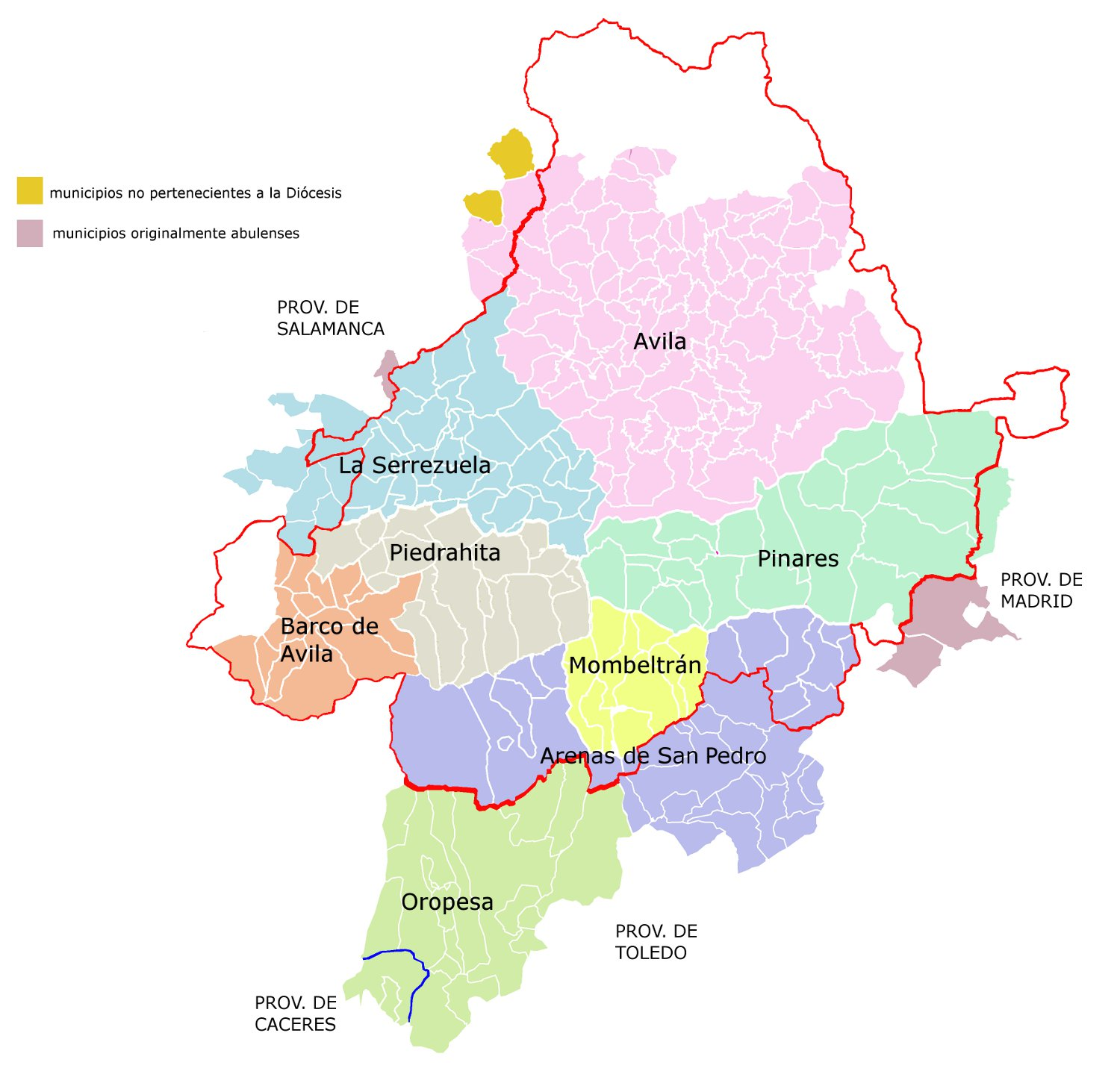 territorios sobre los que se extendió la Villa y tierra de Avila